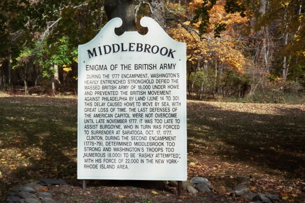 Informational sign titled "Enigma of the British Army" at the Middlebrook Encampment Site